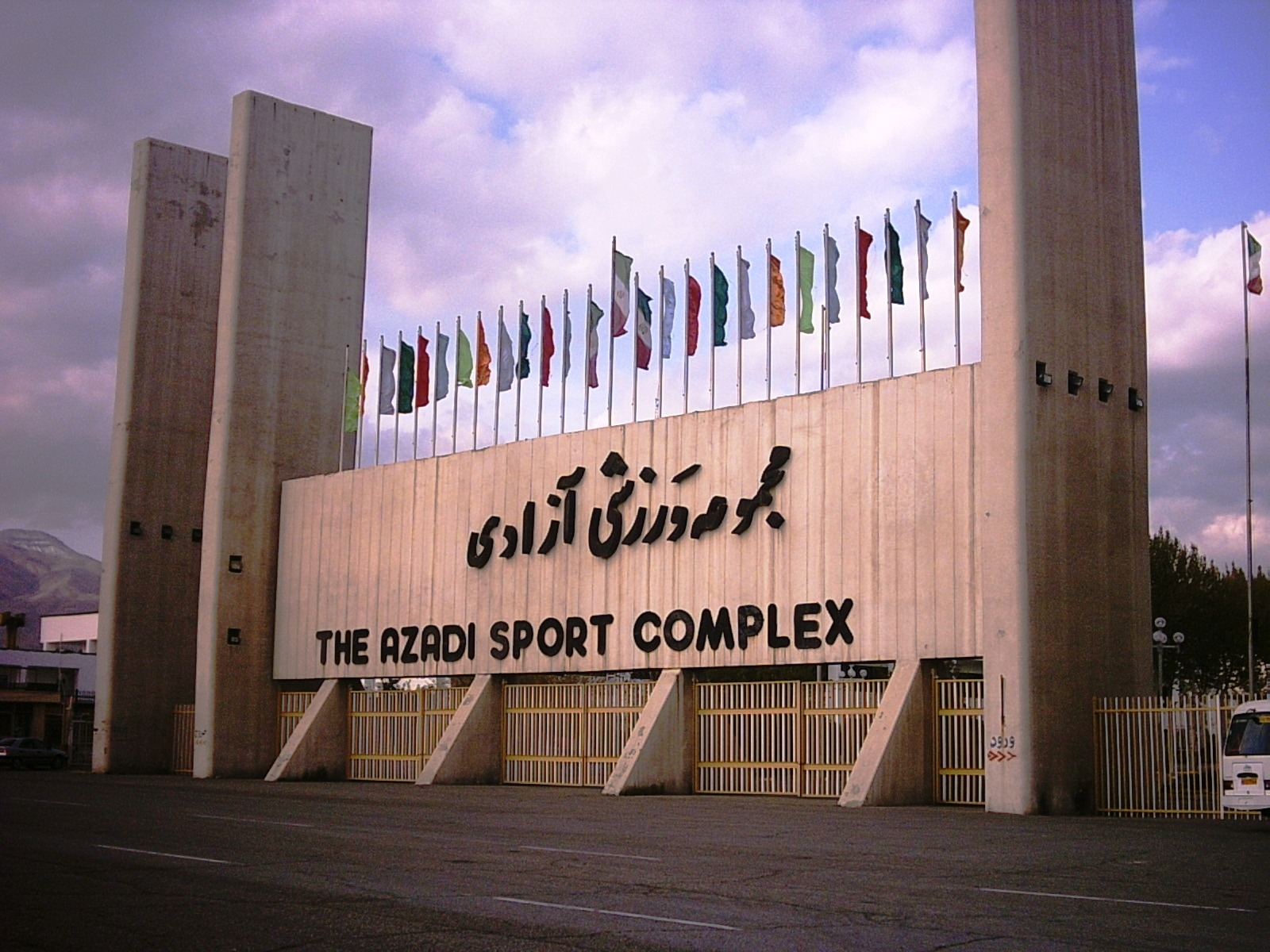 Tehran Azadi Stadium